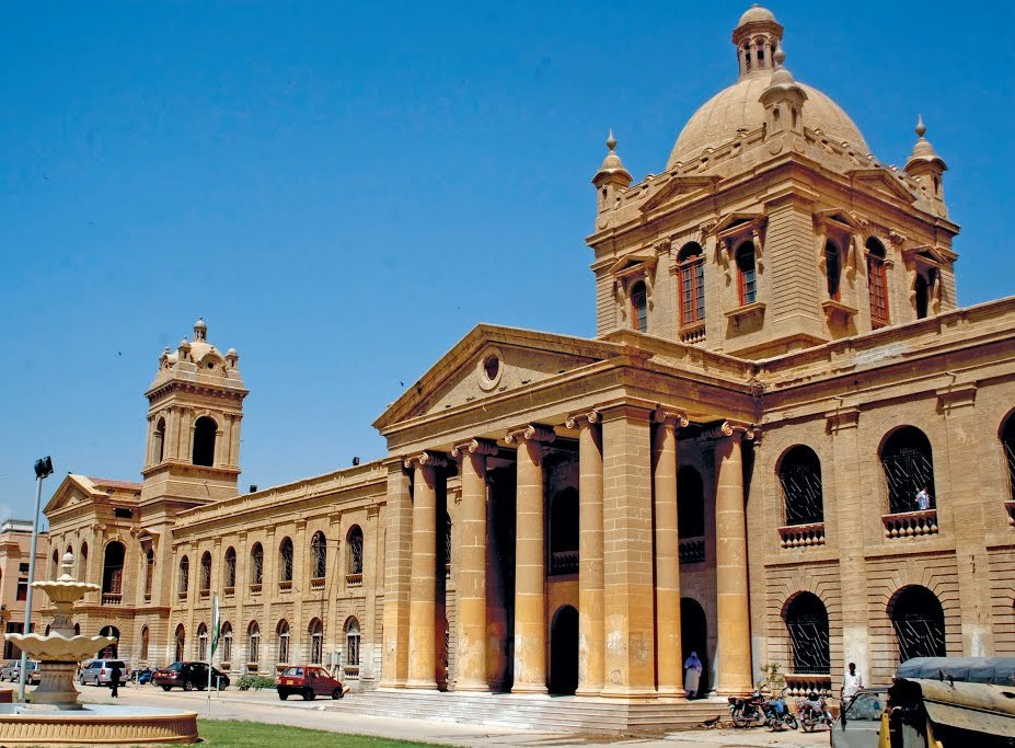 A view of Karachi's DJ College